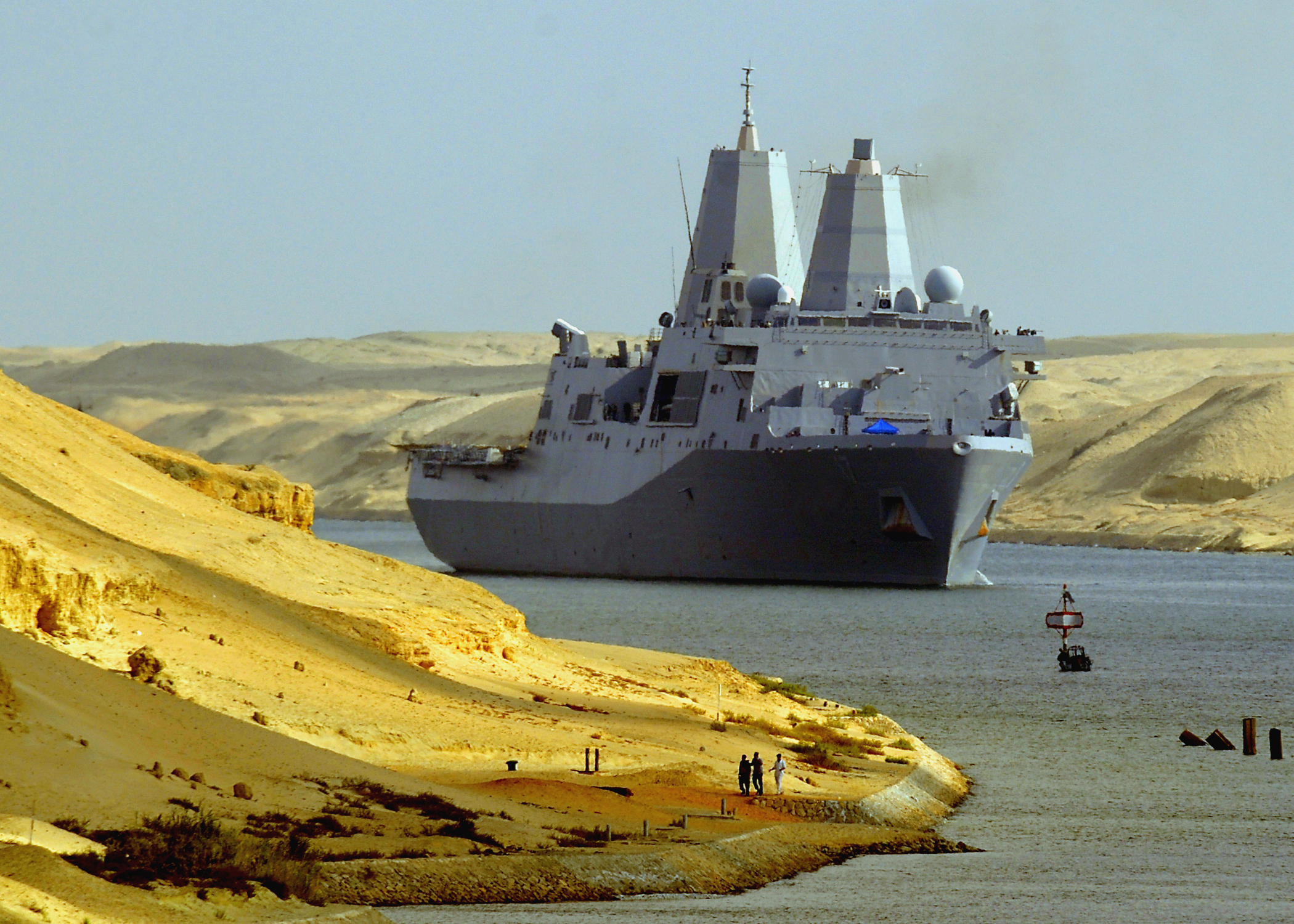 SUEZ CANAL, Egypt(Sept. 23, 2008) The amphibious transport dock ship USS San Antonio (LPD 17) transits through the Suez Canal. San Antonio is deployed as part of the Iwo Jima Expeditionary Strike Group supporting maritime security operations in the U.S. 5th Fleet area of responsibility. U.S. Navy photo by Mass Communication Specialist 2nd Class Jason R. Zalasky (Released)